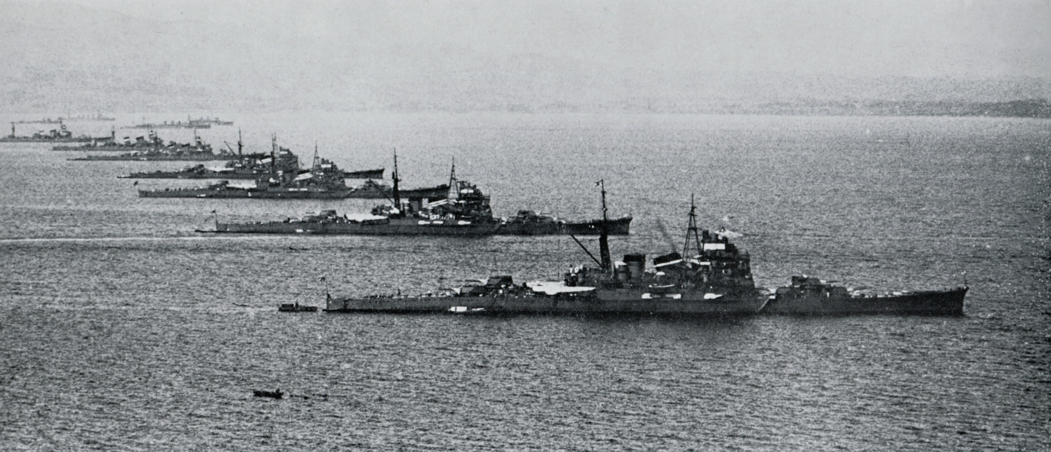 Sentai 4 (Chokai, Maya, Atago, Takao) off Shinagawa in october 1935. In the distance-Sentai 6 (Aoba, Kinugasa, Furutaka) and Sentai 8 (Nagara, Isuzu, Natori).